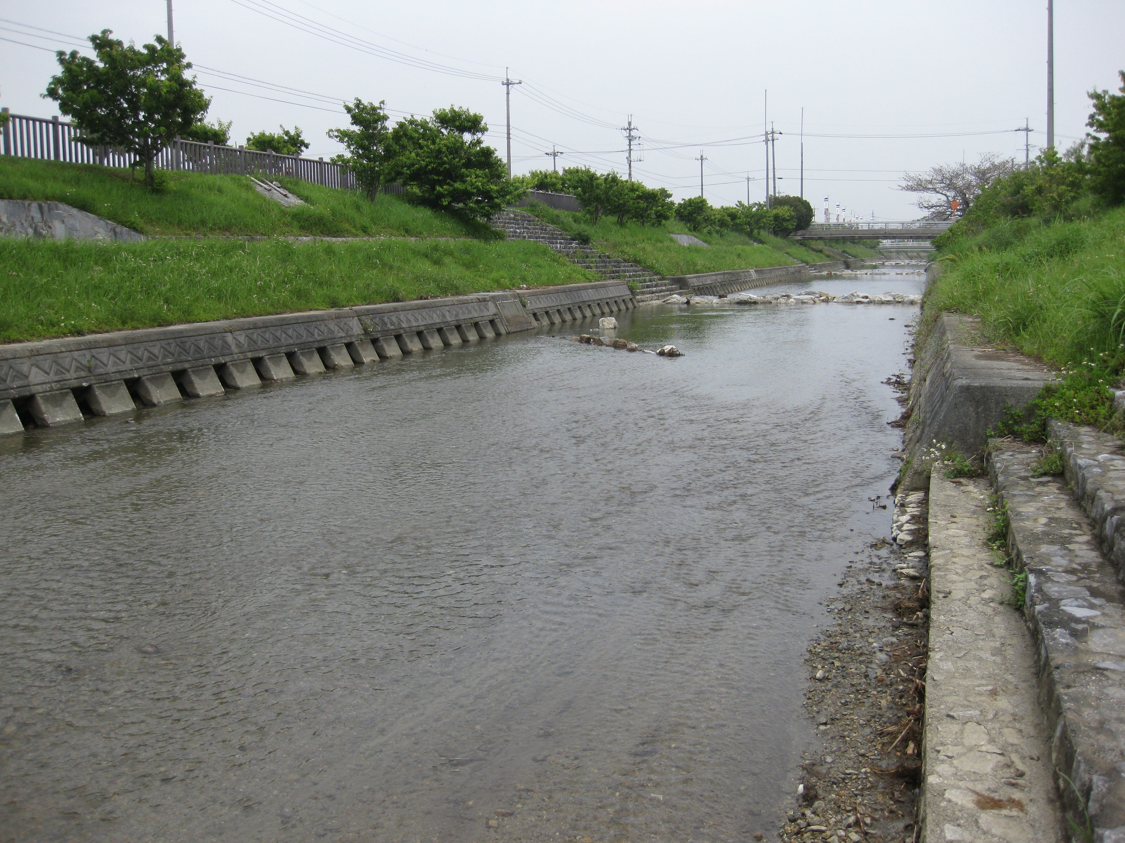 Hanejiōkawa River of Okinawa, Japan